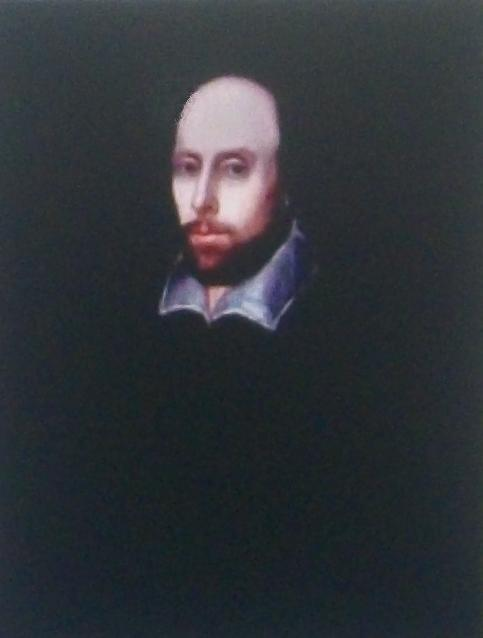 copy of the Chandos portrait of Shakespeare